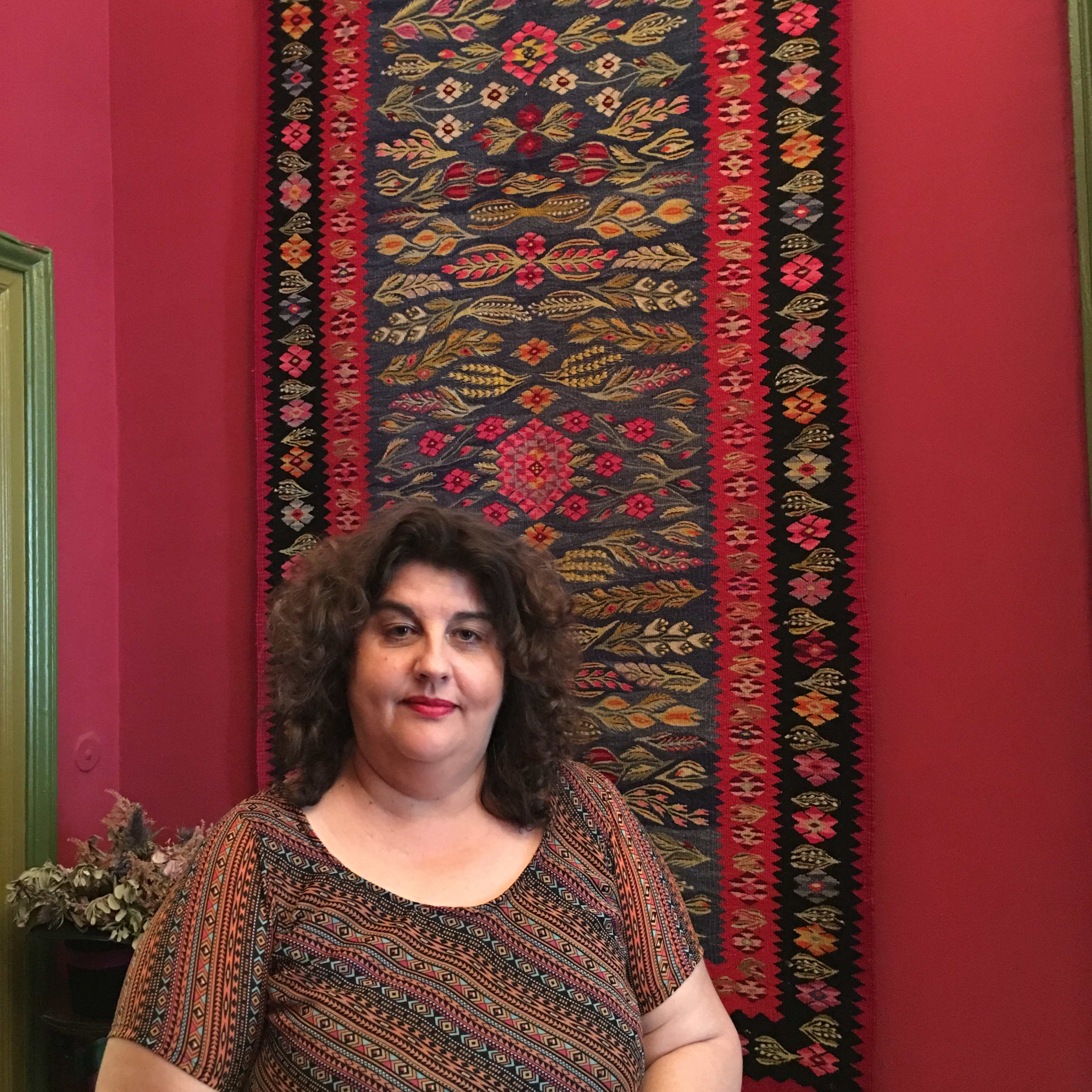 Tradiții, 2016